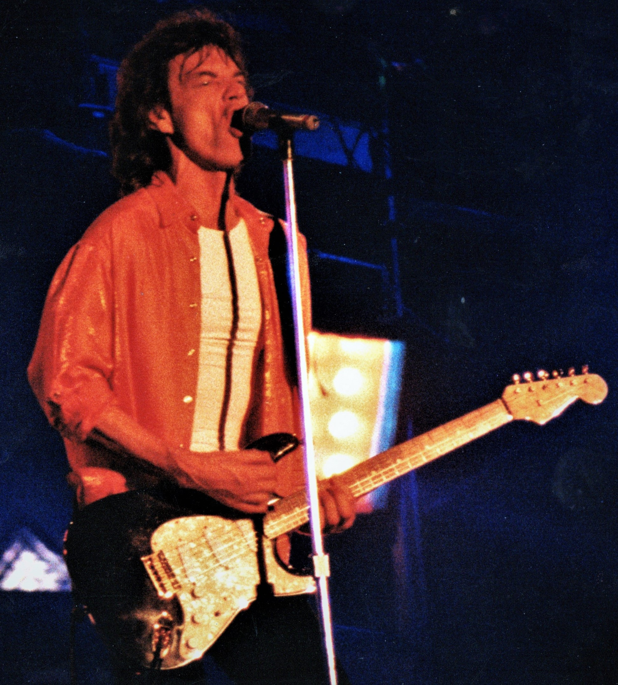 Mick Jagger, leader of The Rolling Stones, in the Voodoo Lounge Tour of Santiago de Chile, February 19, 1995